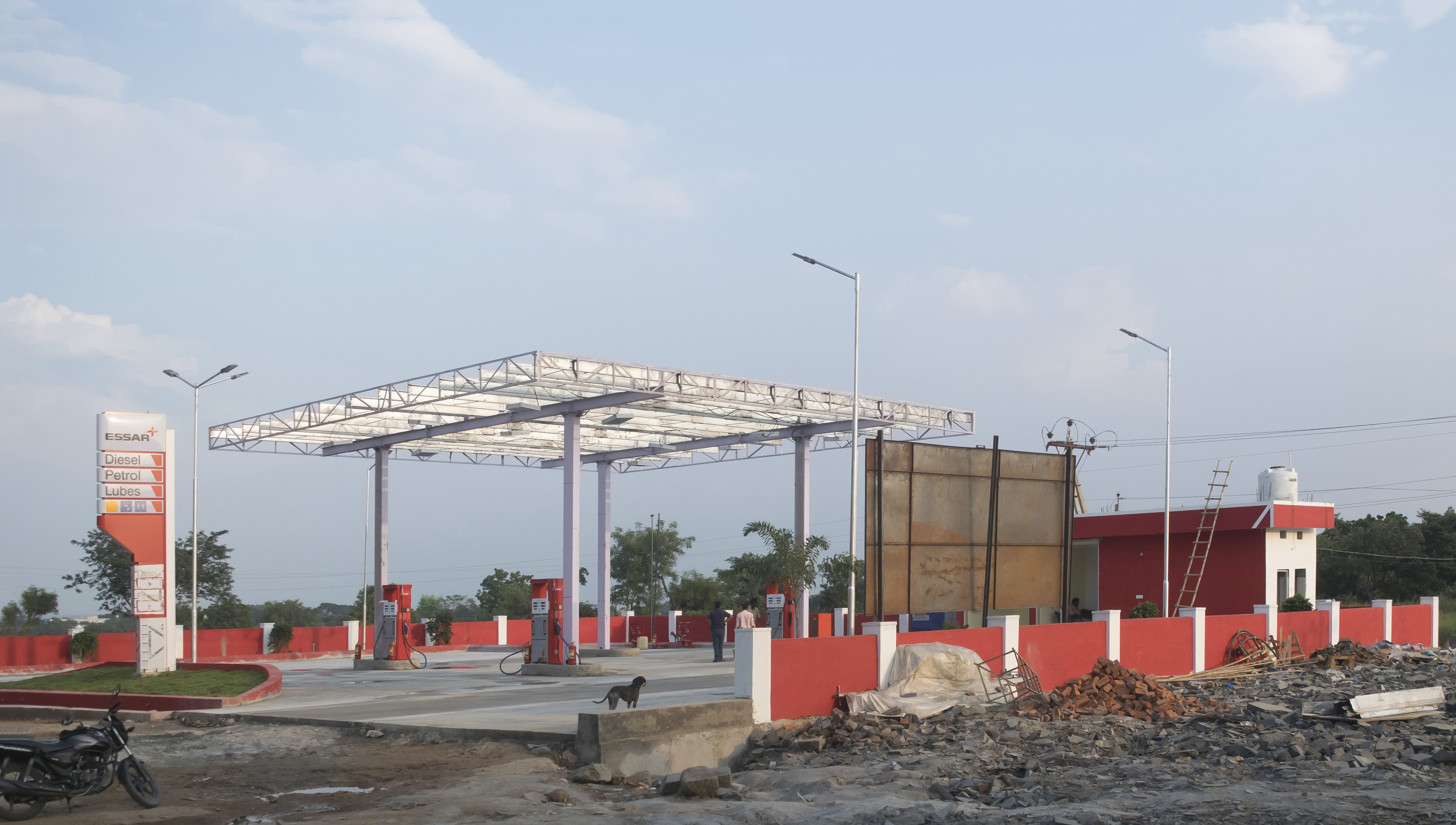 A petrol filling station belonging to Essar Petroleum